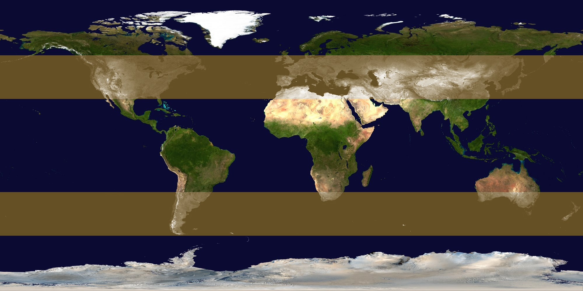 Image identifying extratropical cyclone formation areas, between approximately 30° and 60° N/S latitude.